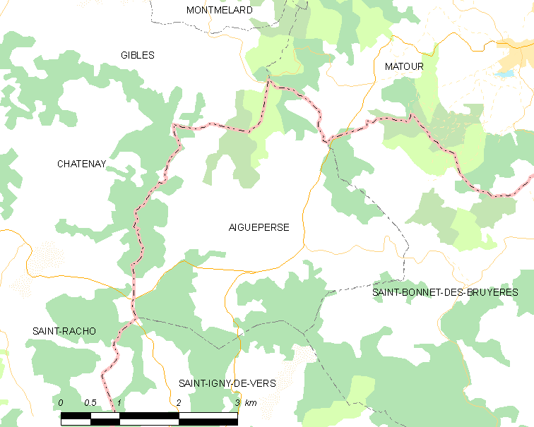 Map of French municipality